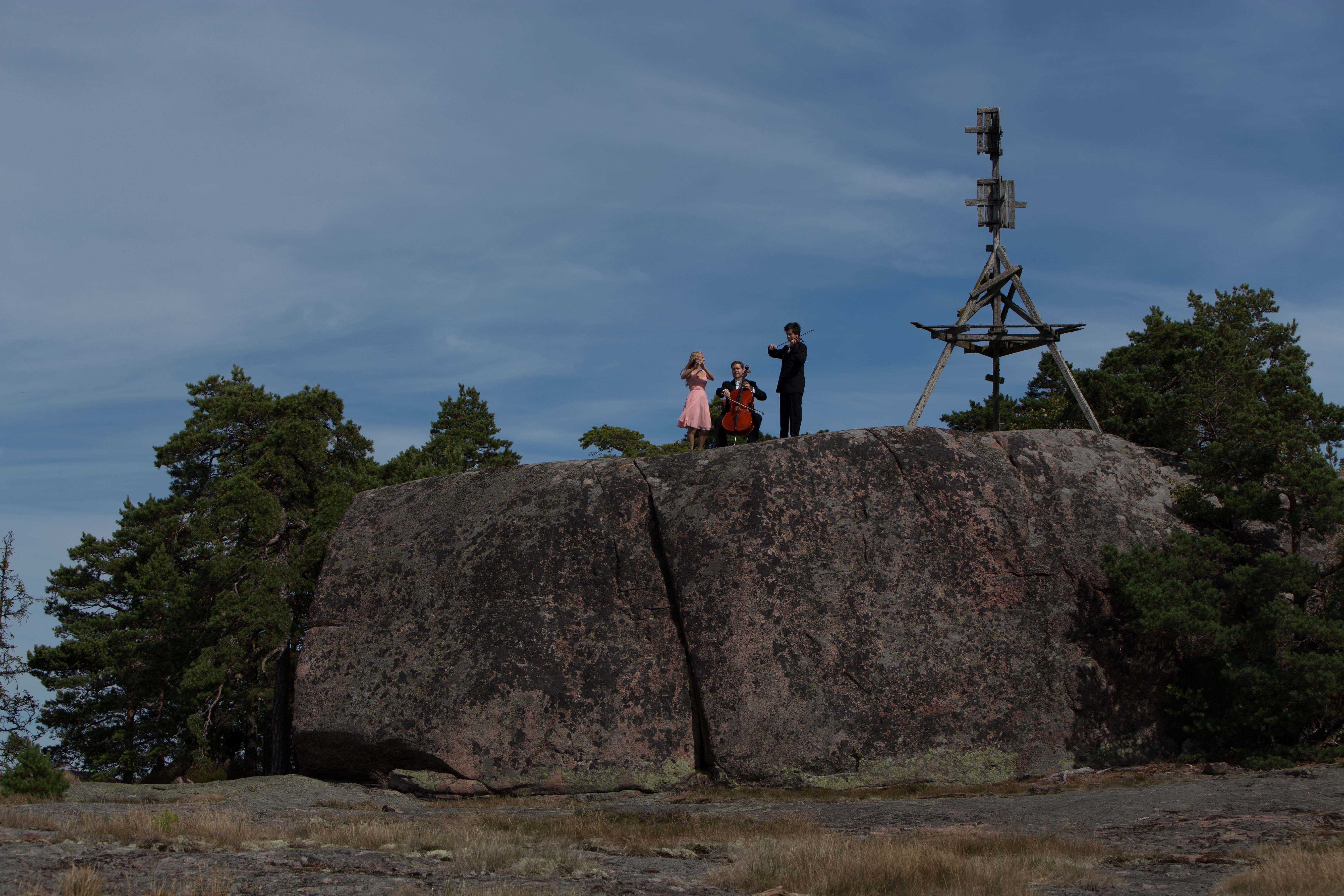 Smörasken ("butter box") boulder on Högsar in Nagu